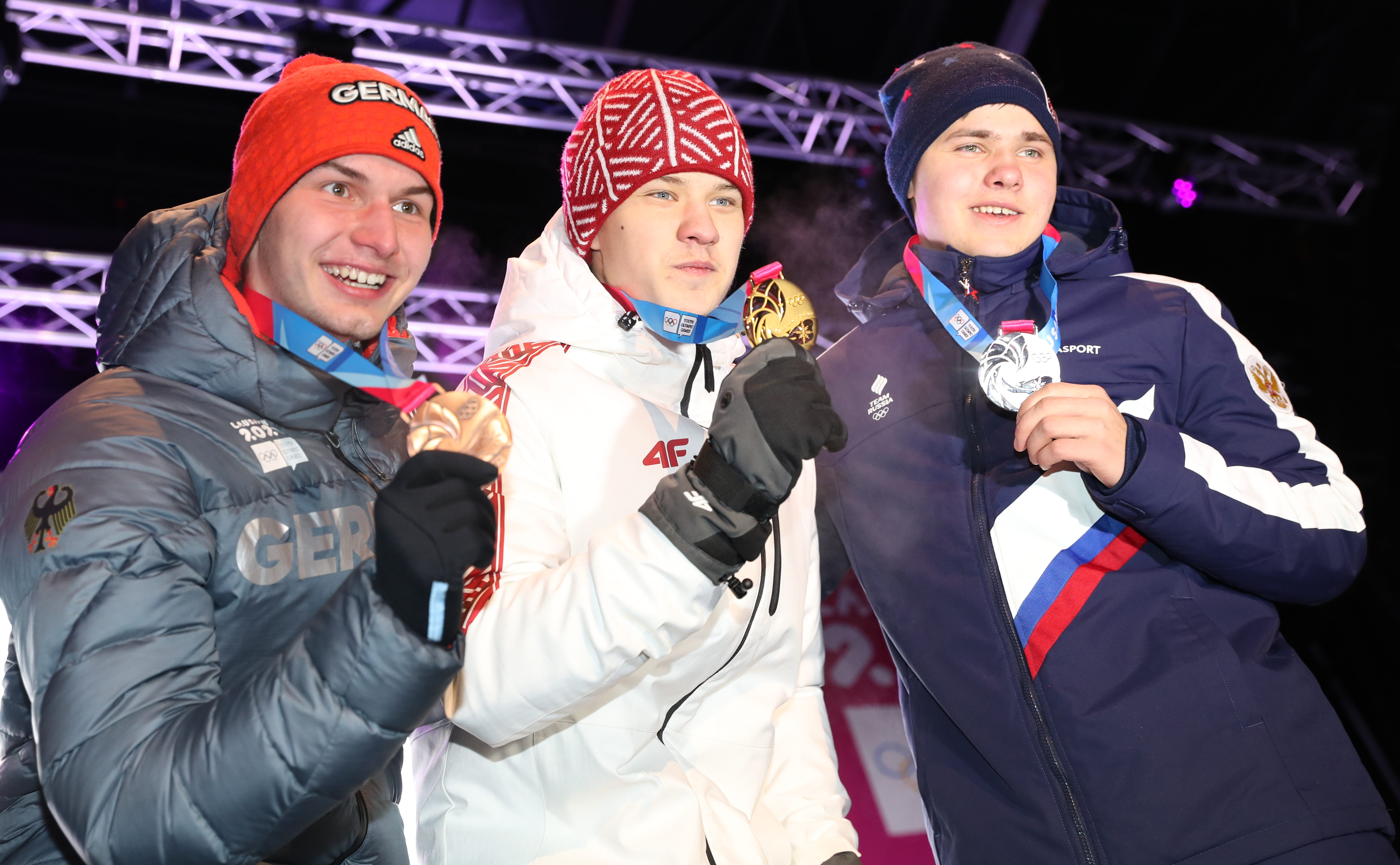 Medal Ceremony Day 9 in St. Moritz, 2020 Winter Youth Olympics in Lausanne